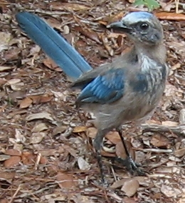 Juvenile Florida scrub jay beginning to develop the blue coloration of an adult bird